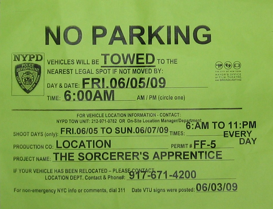 Temporary "No Parking" sign found on Beaver Street in the Downtown or Financial District of Manhattan in New York City (less than a block east of :w:Bowling Green. On-location filming was taking place for :w:The Sorcerer's Apprentice